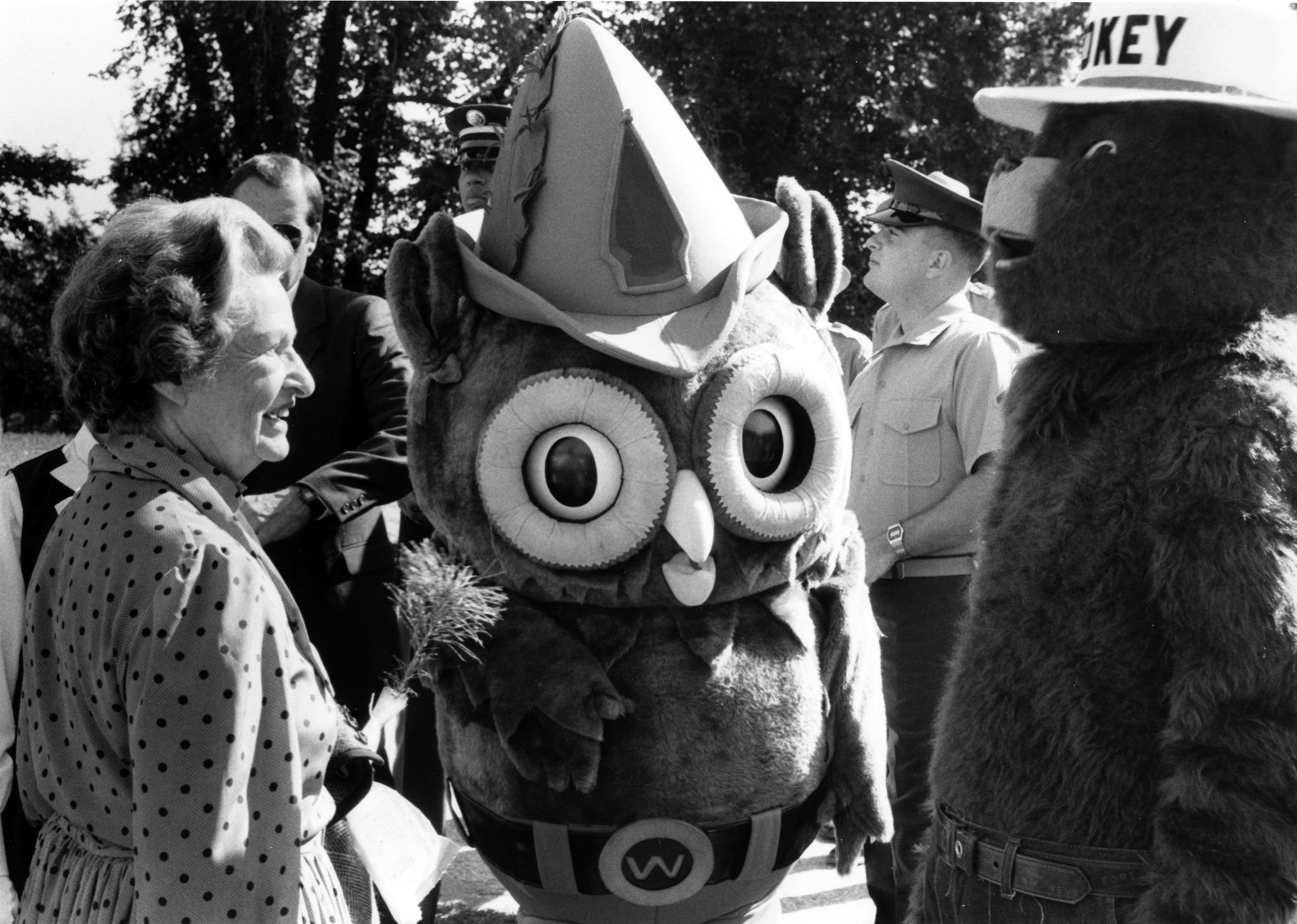 Woodsy Owl and Smokey Bear with former first lady Lady Bird Johnson